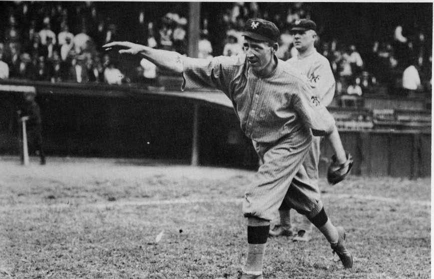 A photo of "Wee Willie" Keeler playing for the New York Giants at the twilight of his career.